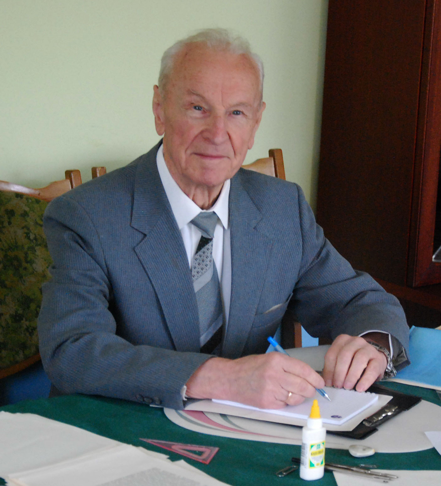 Scientist